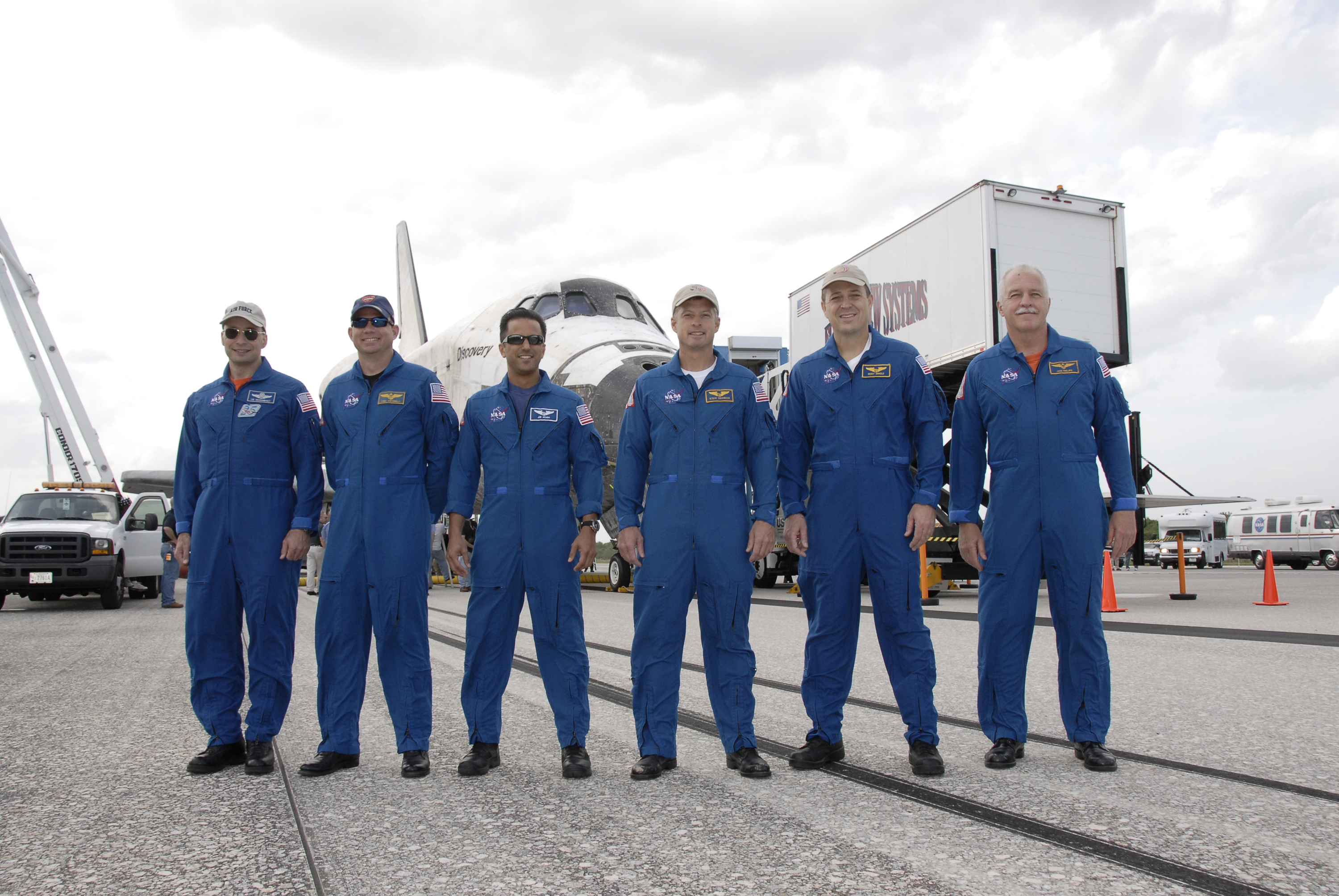 Members of the STS-119 crew pose for a group portrait in front of space shuttle Discovery on Runway 15 at NASA's Kennedy Space Center in Florida, following return from their 13-day, 5.3-million mile journey on the STS-119 mission to the International Space Station. From left are Commander Lee Archambault, Pilot Tony Antonelli and Mission Specialists Joseph Acaba, Steve Swanson, Richard Arnold and John Phillips. Main gear touchdown was at 3:13:17 p.m. EDT. Nose gear touchdown was at 3:13:40 p.m. and wheels stop was at 3:14:45 p.m. Discovery delivered the final pair of large power-generating solar array wings and the S6 truss segment. The mission was the 28th flight to the station, the 36th flight of Discovery and the 125th in the Space Shuttle Program, as well as the 70th landing at Kennedy.